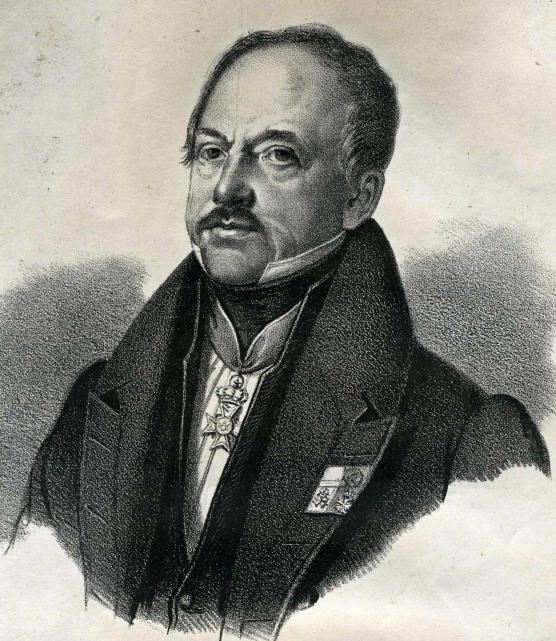 Wilhelm Friedrich August von Leyßer (1771-1842), saxon politican, president of the second chamber of the Landtag of Saxony, Lieutenant General.